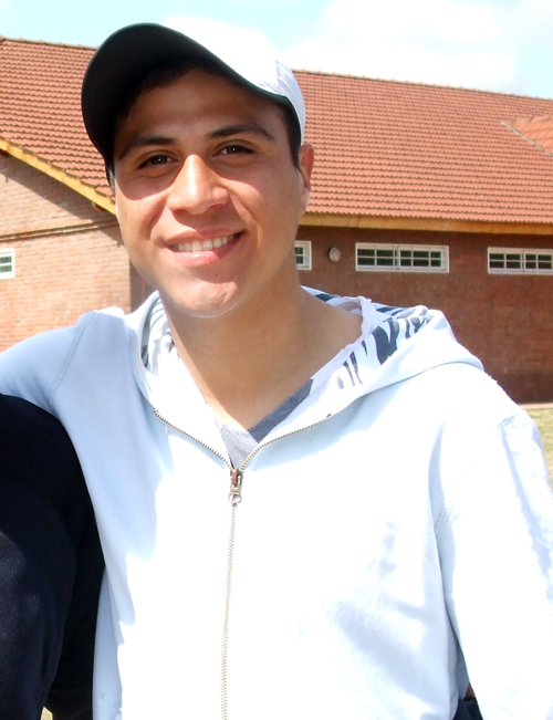 Jonathan Cristaldo. Vélez Sarsfield.